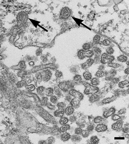 Electron microscopic image of novel Thogotovirus isolate, Bourbon virus. Thin-section specimen fixed in 2.5% glutaraldehyde shows numerous extracellular virions with slices through strands of viral nucleocapsids. Arrows indicate virus particles that have been endocytosed. Scale bar indicates 100 nm. Cropped from Figure 2d from Kosoy OI, Lambert AJ, Hawkinson DJ, et al. (2015) Novel Thogotovirus species associated with febrile illness and death, United States, 2014. Emerging Infectious Diseases